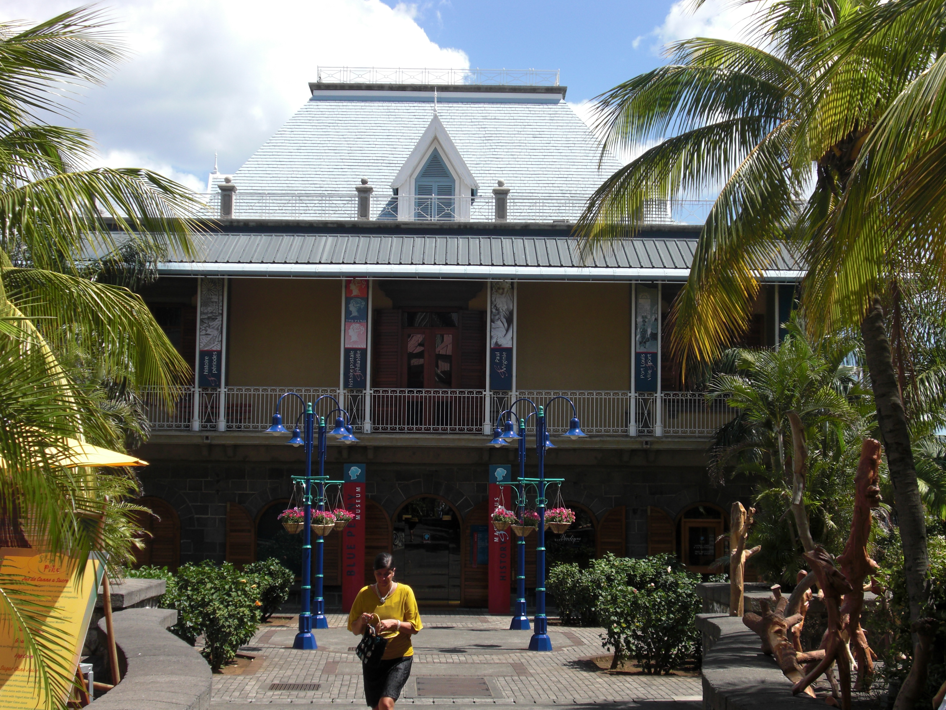 Blue Penny Museum, Port Louis, Mauritius